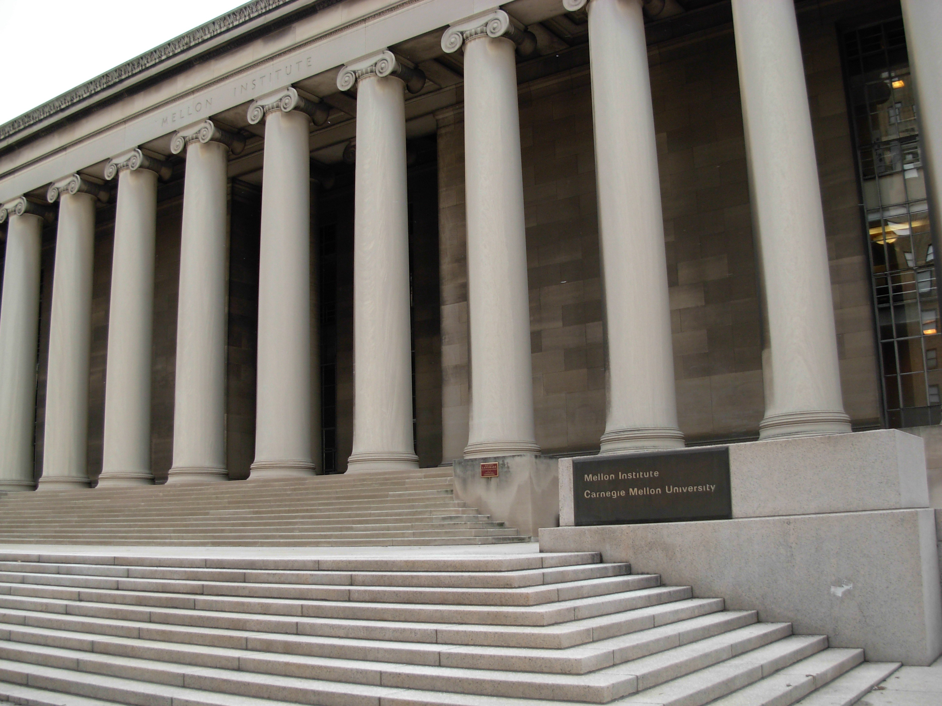 Mellon Institute. Photo by myself.